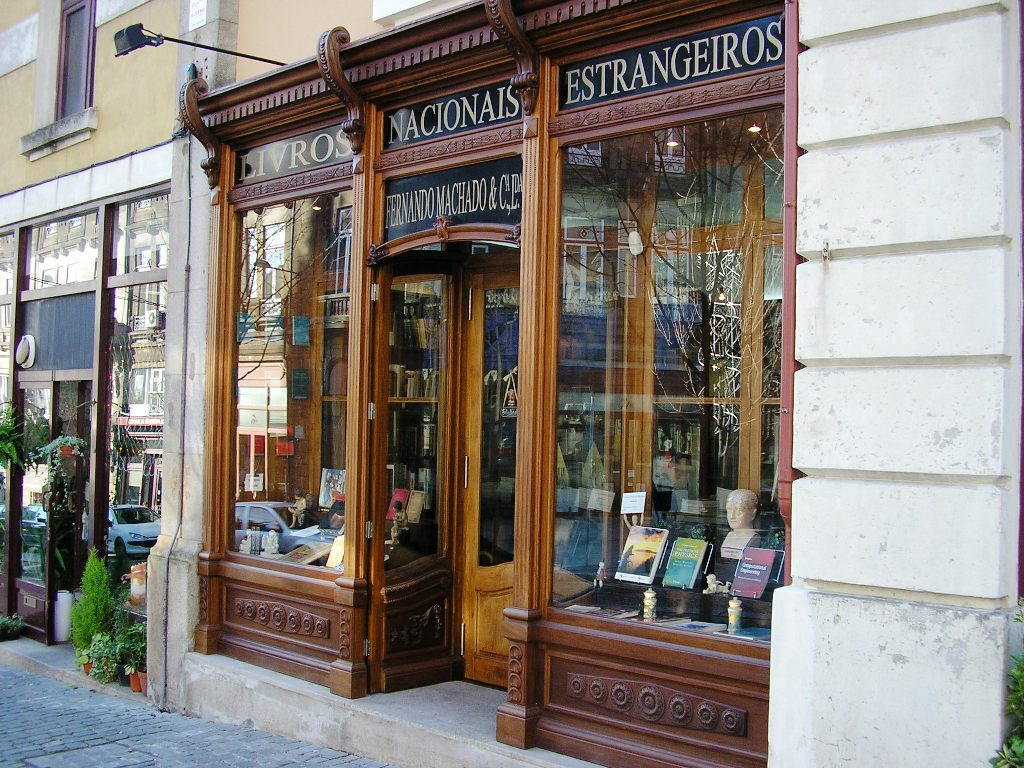 "Fernando Machado" bookshop in Porto, Portugal.